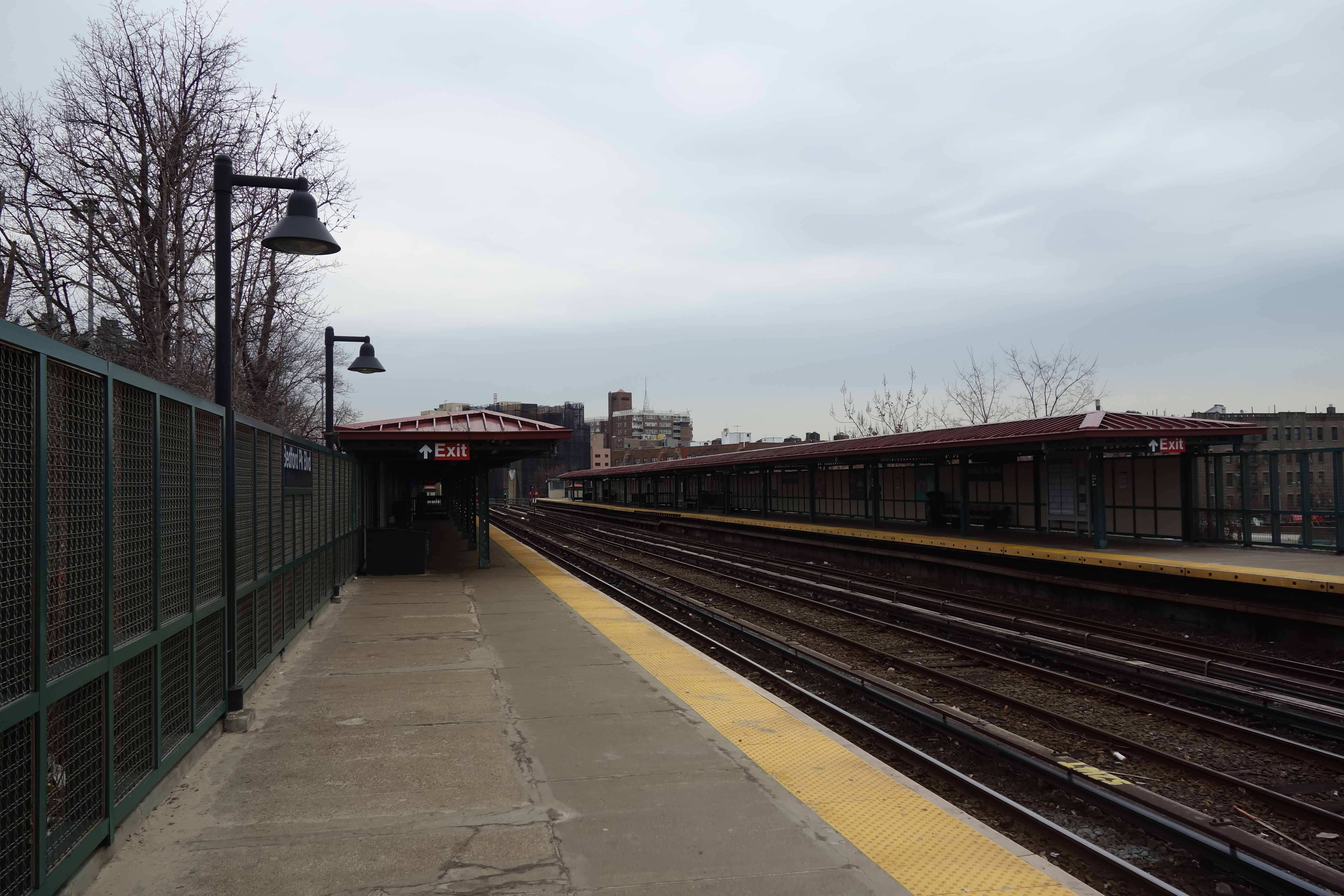 The Downtown platform of the Bedford Park Boulevard – Lehman College IRT station, above Jerome Avenue and Bedford Park Boulevard in Jerome Park / Bedford Park, Bronx.